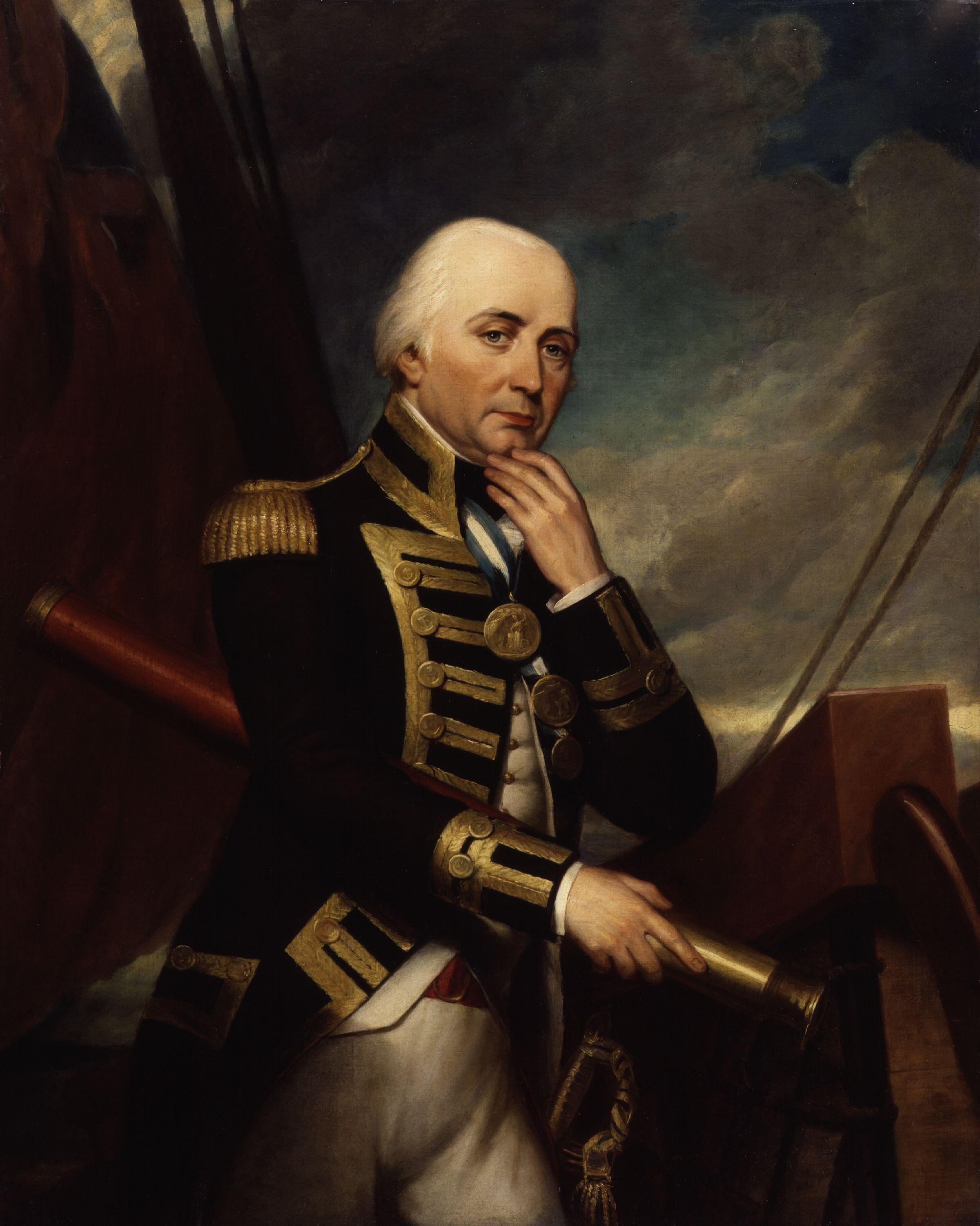 Vice Admiral Cuthbert Collingwood, 1st Baron Collingwood (26 September 1748 – 7 March 1810) was an admiral of the Royal Navy, notable as a partner with Horatio Nelson in several of the British victories of the Napoleonic Wars, and frequently as Nelson's successor in commands. Cuthbert Collingwood, Baron Collingwood, by Henry Howard (died 1847). All images in this batch have been confirmed as author died before 1939 according to the official death date listed by the NPG.